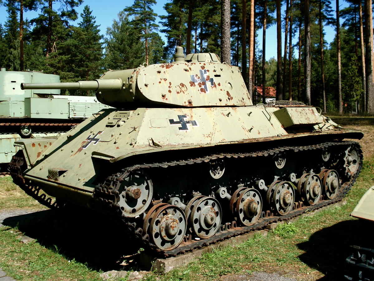 Soviet T-50 light tank, with Finnish markings, displayed in Finnish Tank Museum (Panssarimuseo) in Parola. Photo taken on July 14, 2006. Source: Photo by me, User:Balcer.